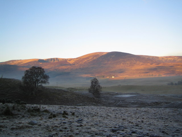 Glen Clova on the shortest day Glen Clova looking towards Ben Tirran shortly before the sun set on the day of the winter solstice in 2007.